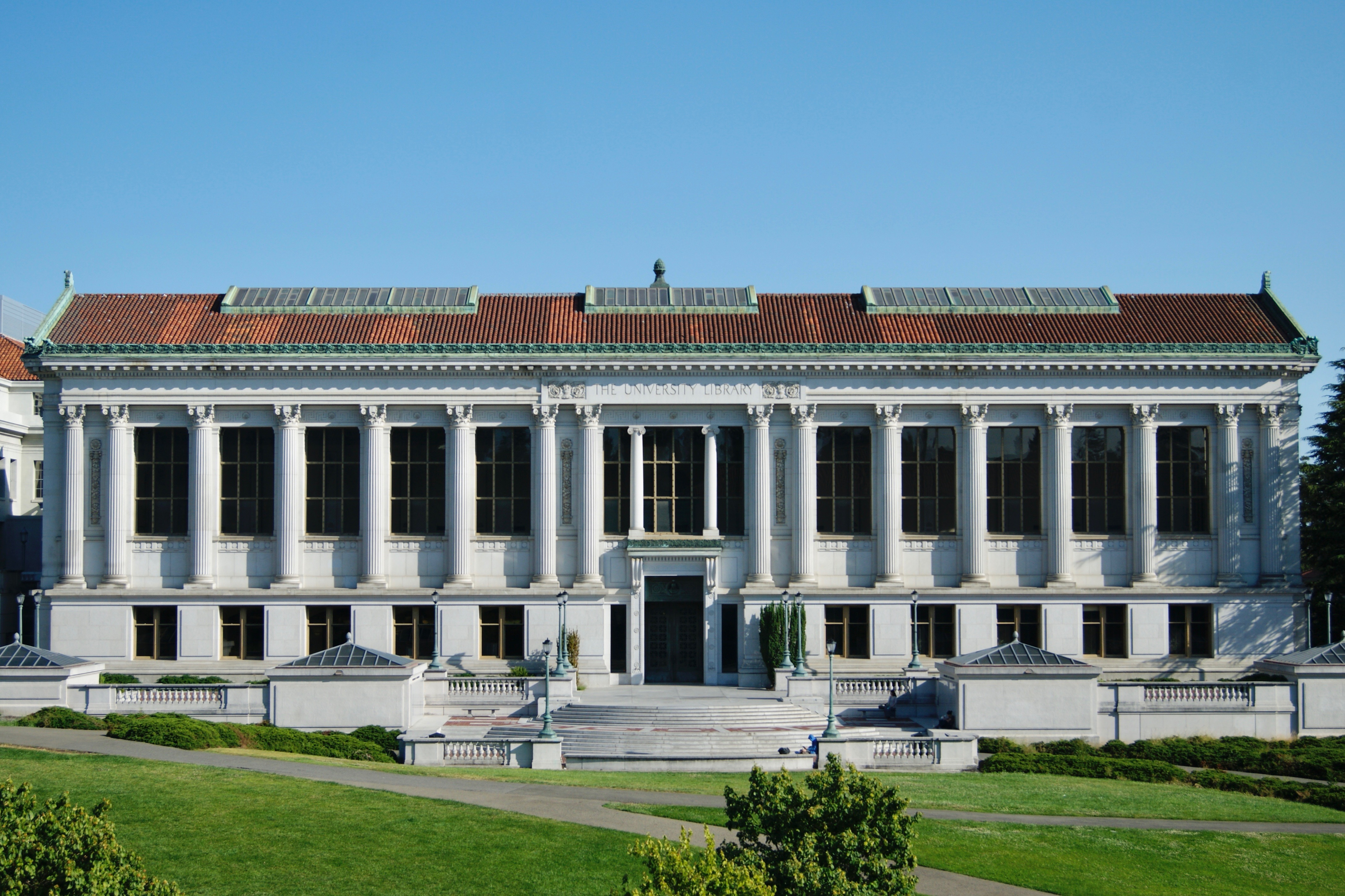 Main facade of the Doe Memorial Library on the UC Berkeley campus.